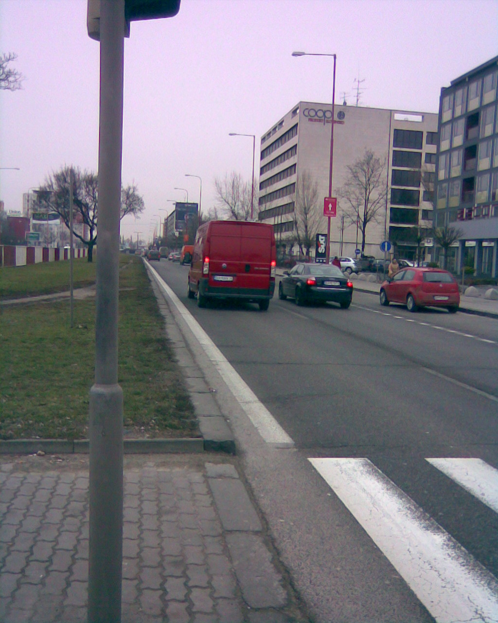 Road I/63 in Bratislava